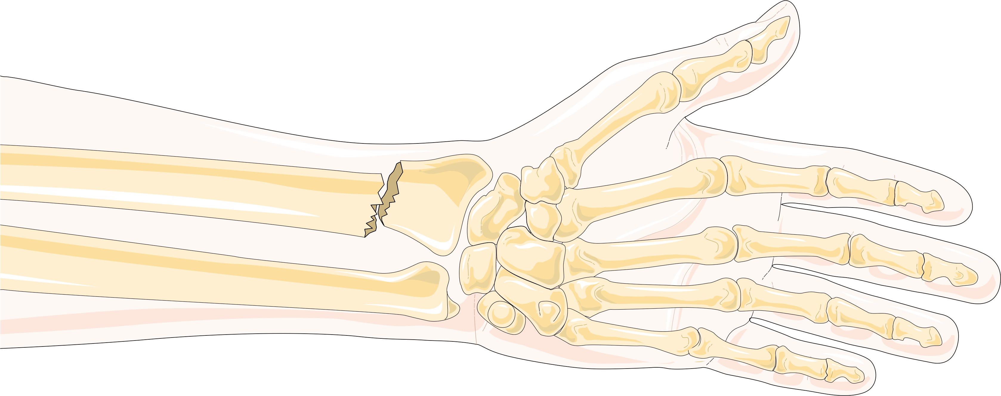 Bone fractures - Forearm fracture - Radius fracture